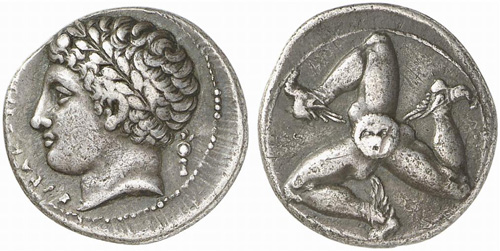 Syracuse. Late Third Democracy or early in the reign of Agathocles . Silver Drachma (4.12 g). Inscription: ΣΥΡΑΚΟΣΙΩΝ Laureate head of the youthful Ares to left; behind, Palladion. Rev. Triskeles of three human legs with winged feet; at the center, gorgoneion.